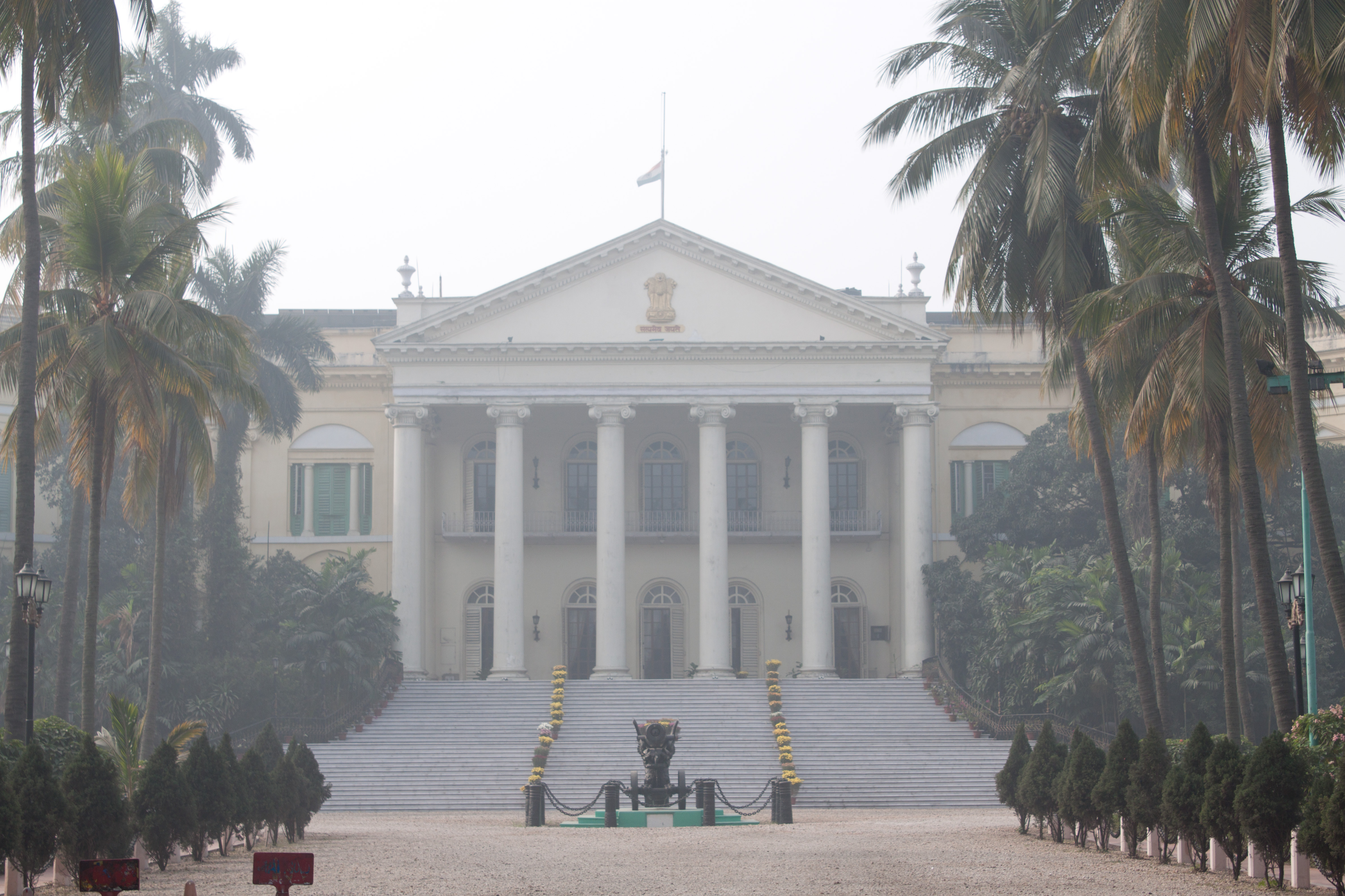 Raj Bhawan